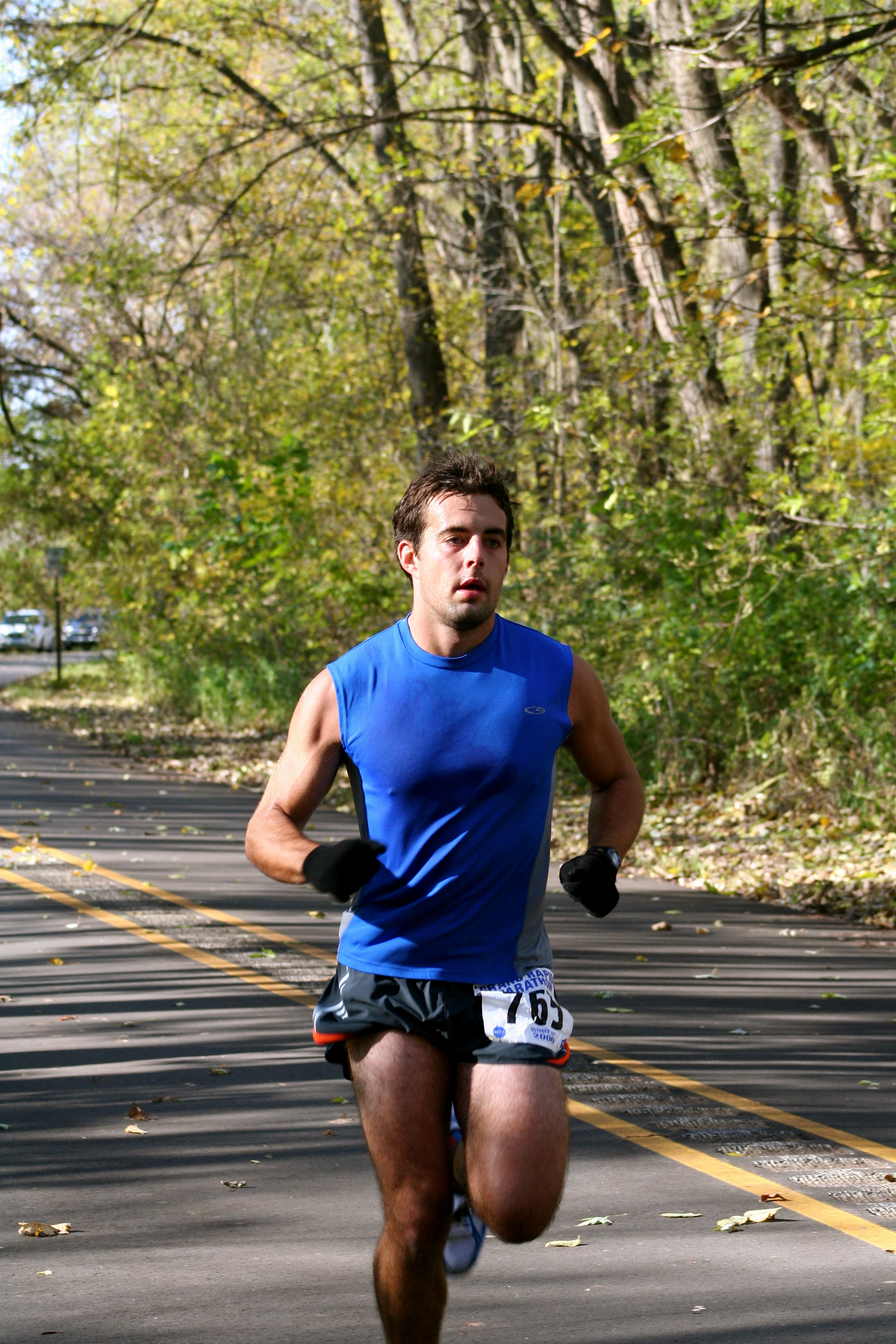 GRMARATHON06 - Grand Rapids Marathon